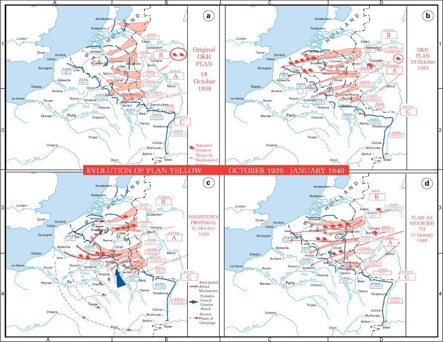 The evolution of PlanYellow between 1939 and 1940